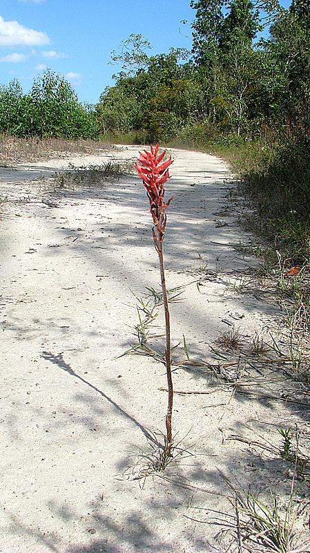 Sacoila lanceolata. Another habitat: a sandy road at the margin of a tabuleiro forest.